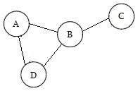 Simple graph